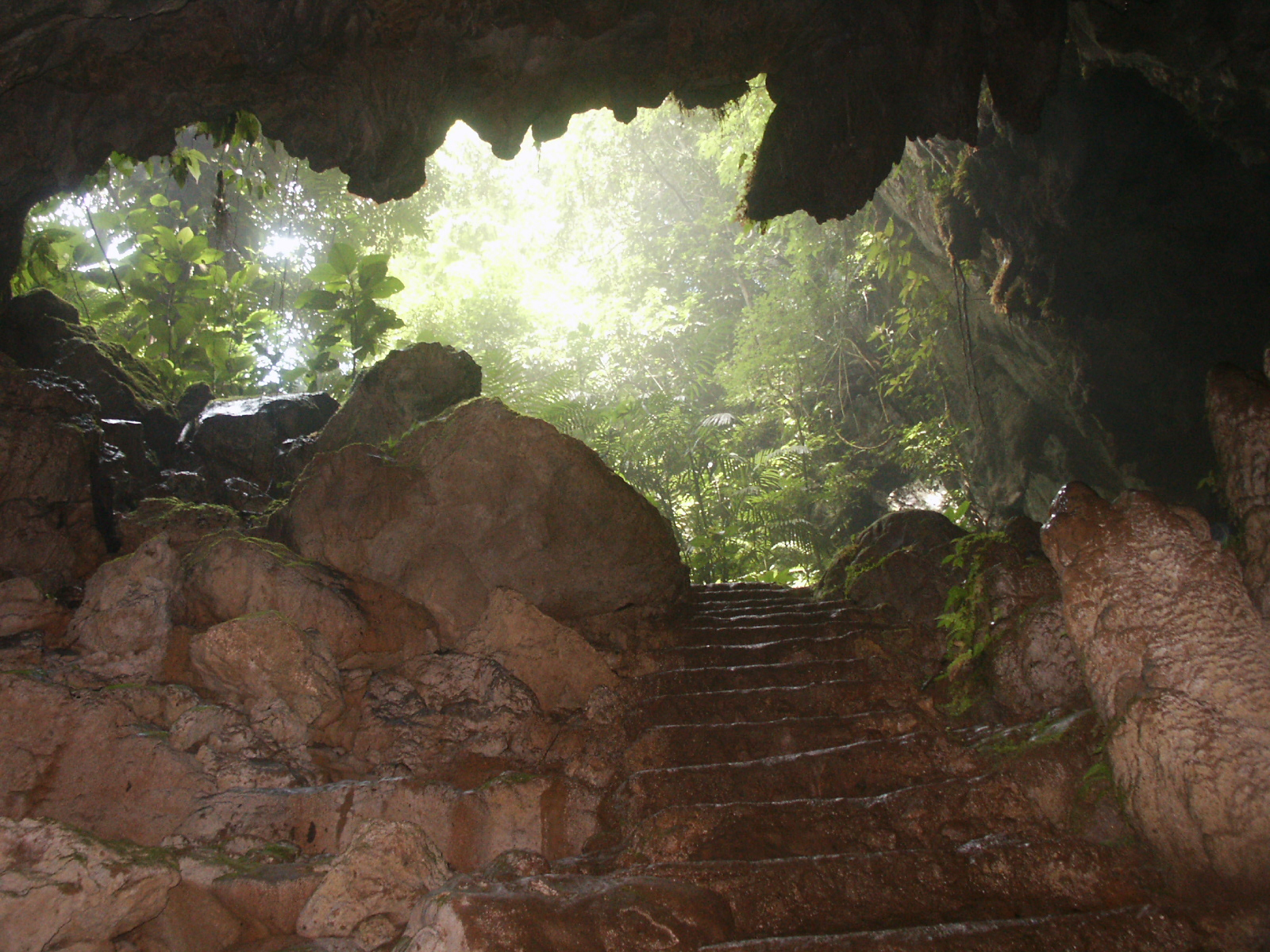 A view looking out at the entrance to St. Herman's Cave in Blue Hole National Park in Cayo District, Belize.